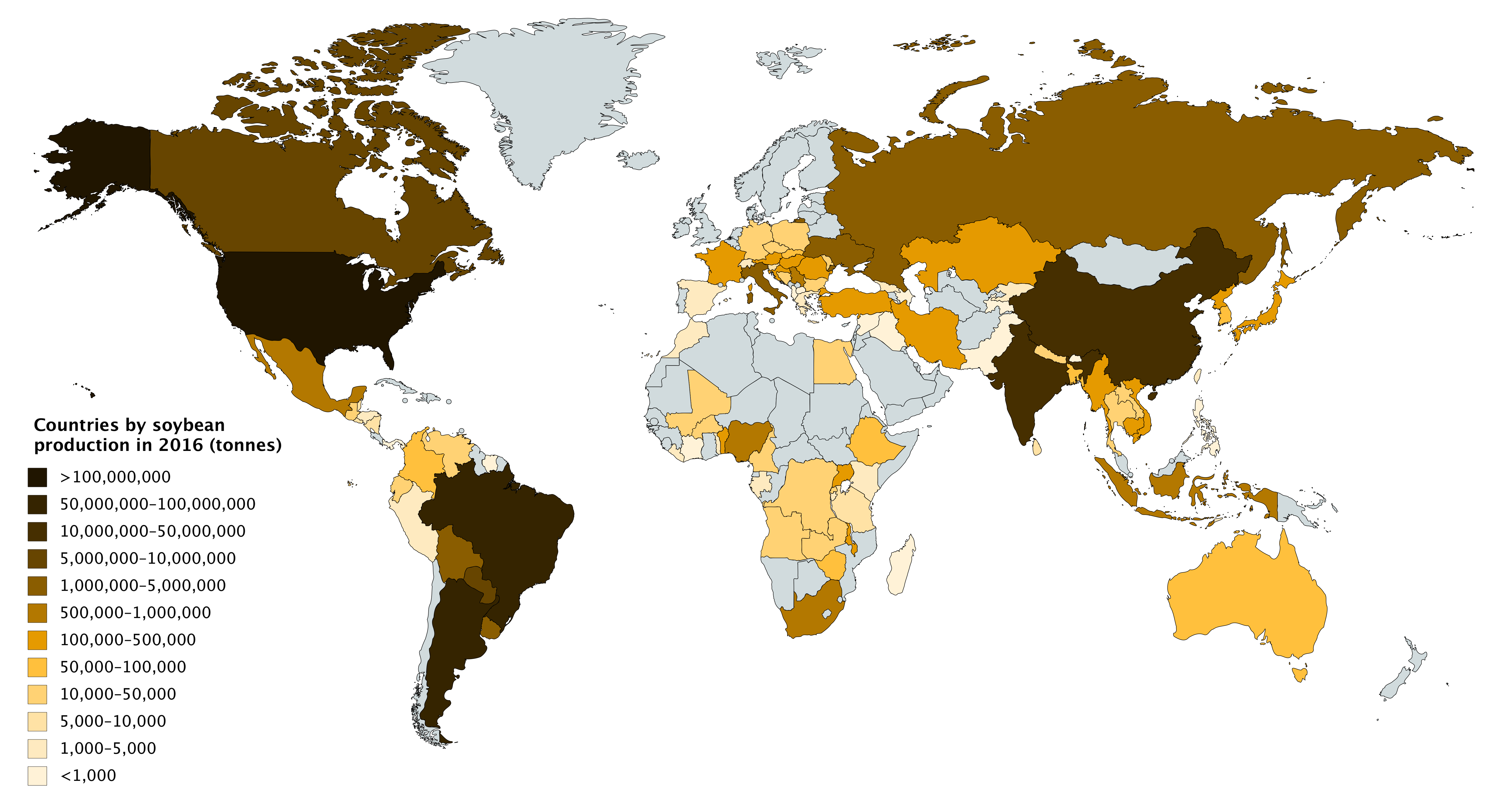 A choropleth map showing countries by soybean production in tonnes, based on 2016 data from the Food and Agriculture Organization Corporate Statistical Database (FAOSTAT).